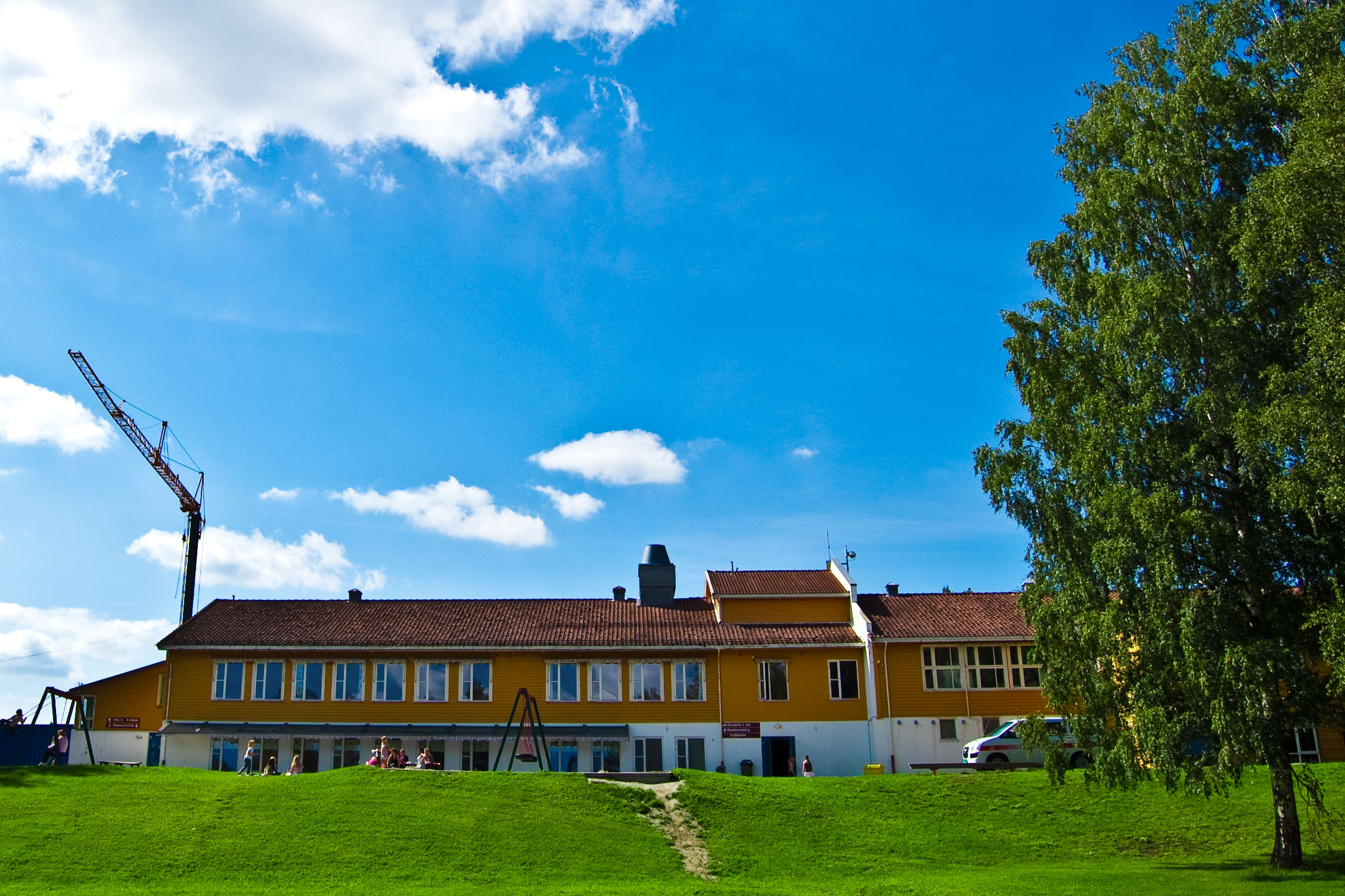 Kirkevoll skole, a primary school in Kirkevoll, Re, Vestfold, Norway